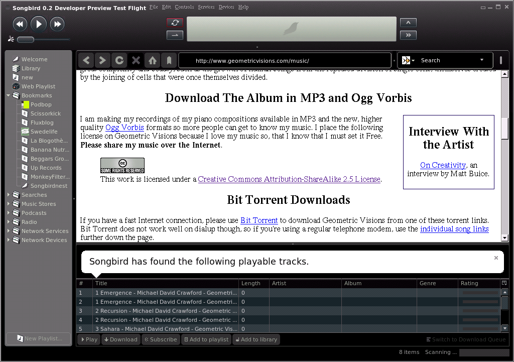 An image of the Songbird media player identifying media files which can be played at the Geometric Visions: Recursion website (by Michael David Crawford).